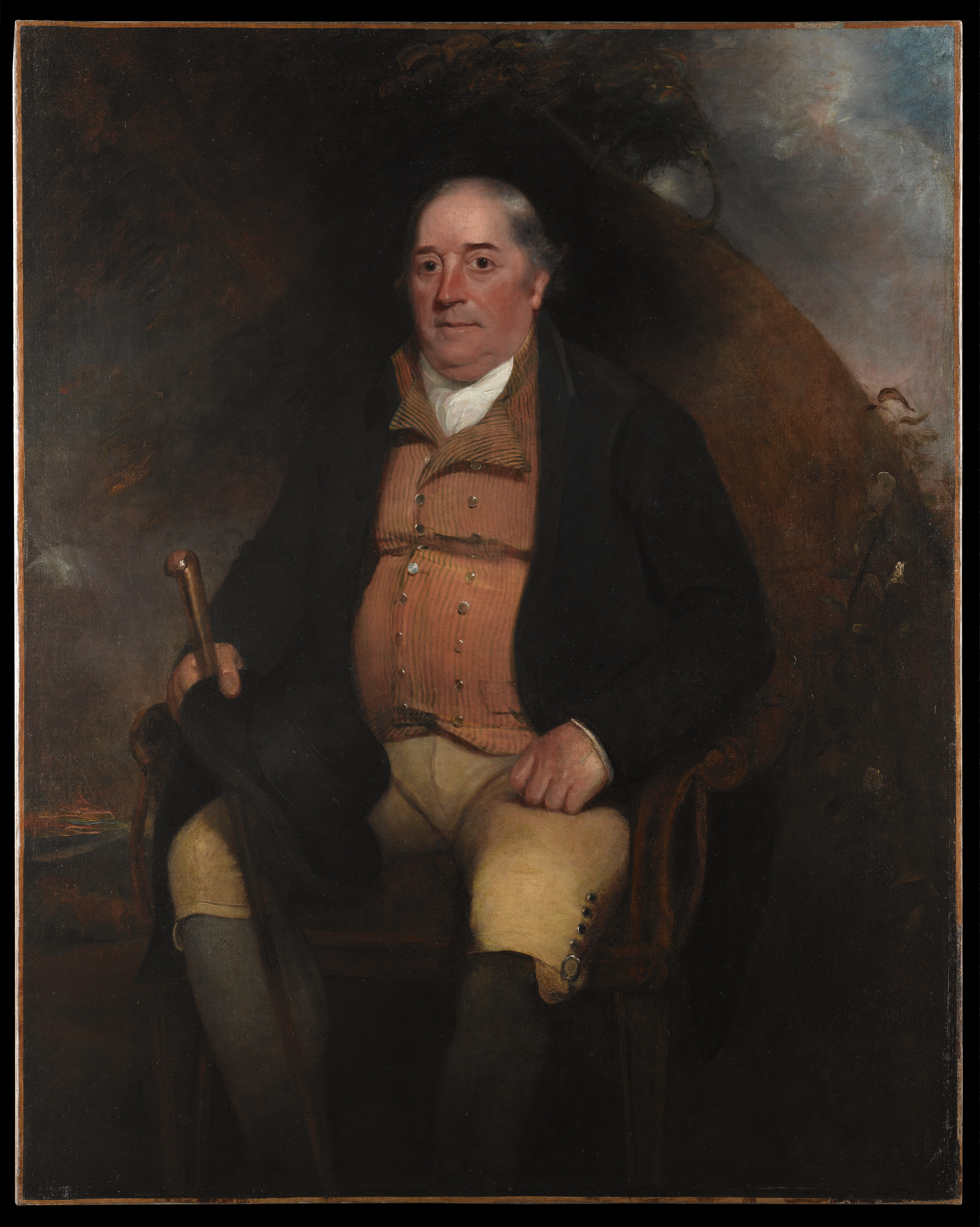 Benjamin Jesty. Oil painting by M.W. Sharp, 1805. Iconographic Collections Keywords: Benjamin Jesty; Michael William Sharp